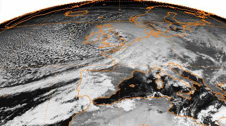 Burn's Day Storm/Daria